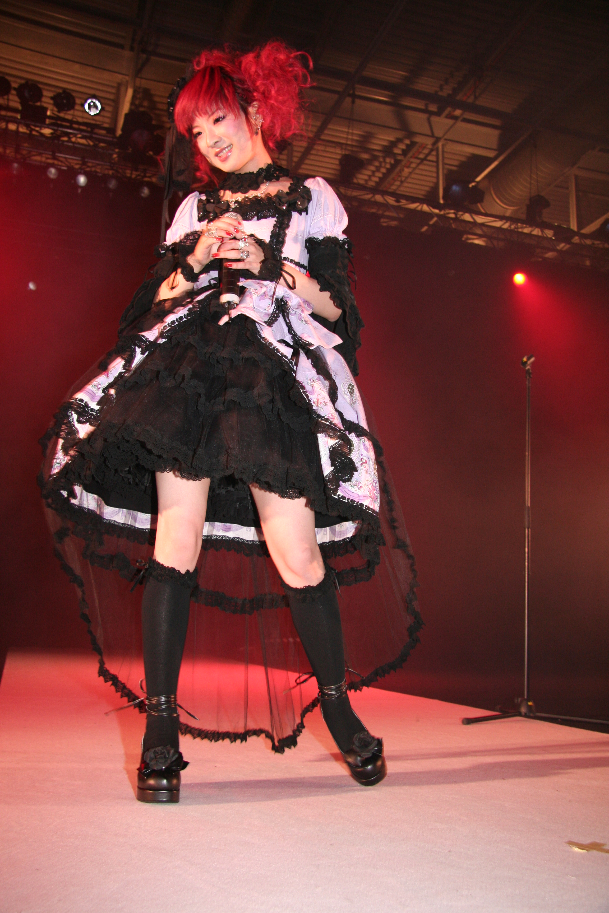 Nana Kitade live at Japan Expo 2007 (Paris, France).